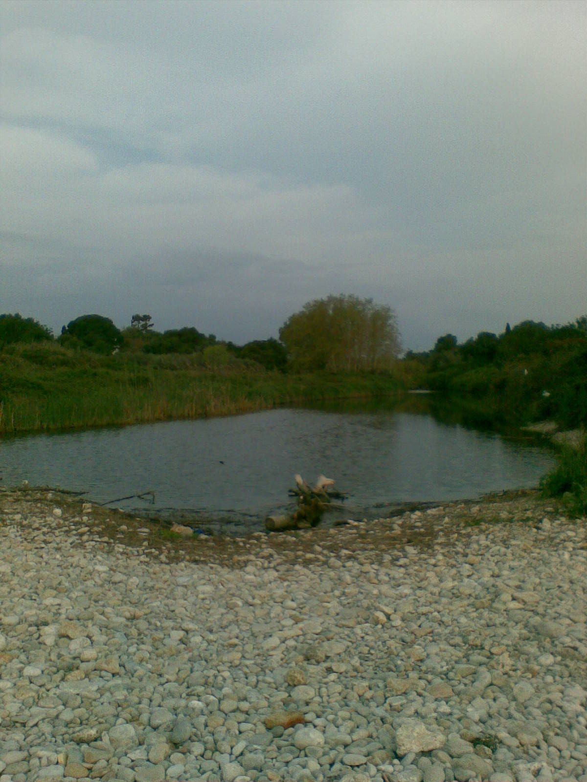 Final course of the river Sénia (Sòl de riu)